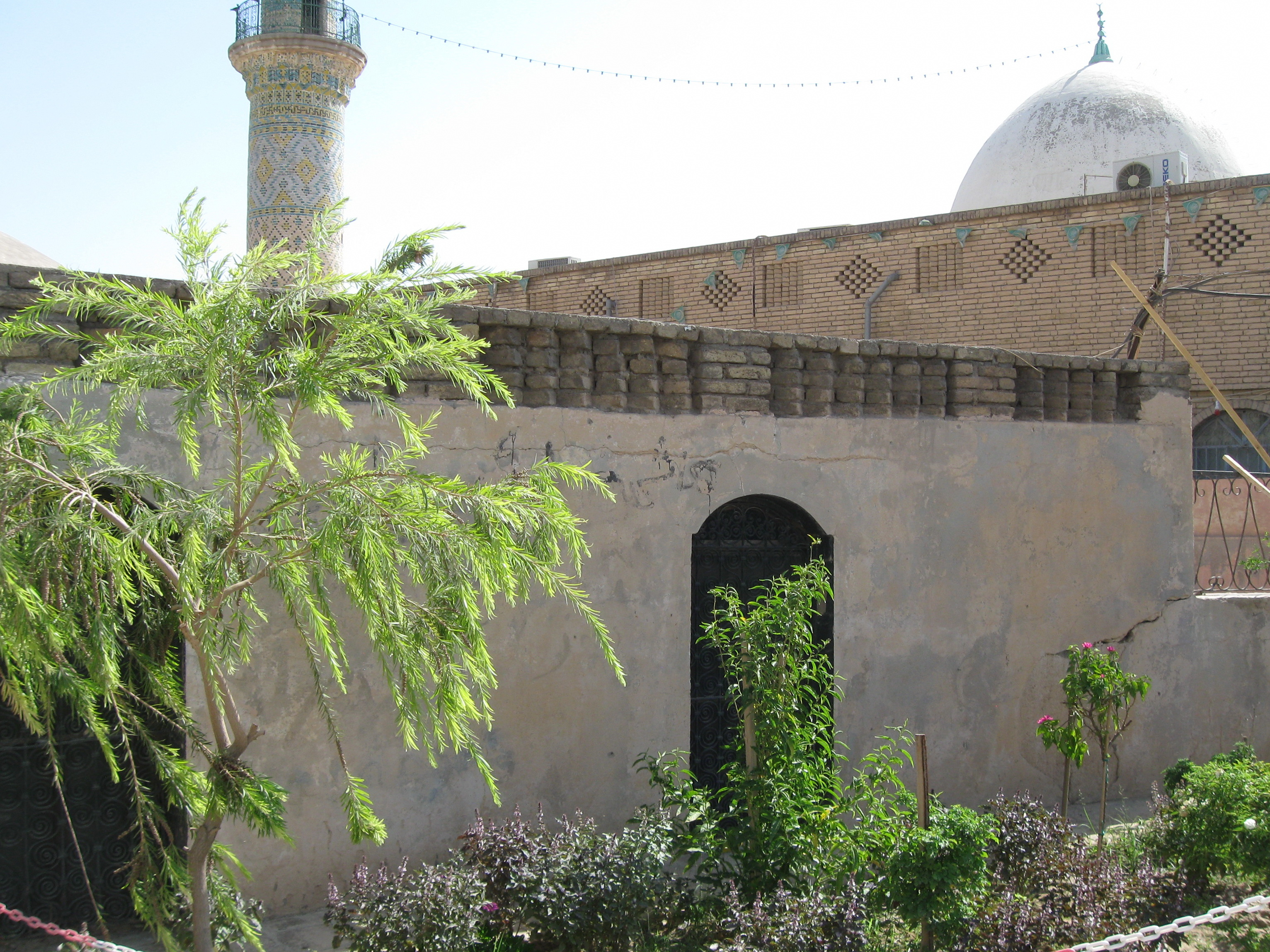 Iraq (Kurdistan)